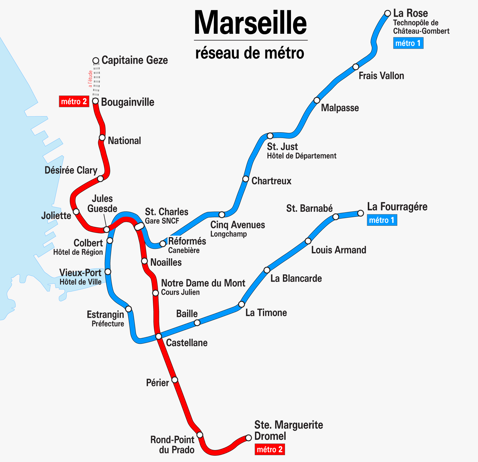 Map: Marseille underground network as of May 2009